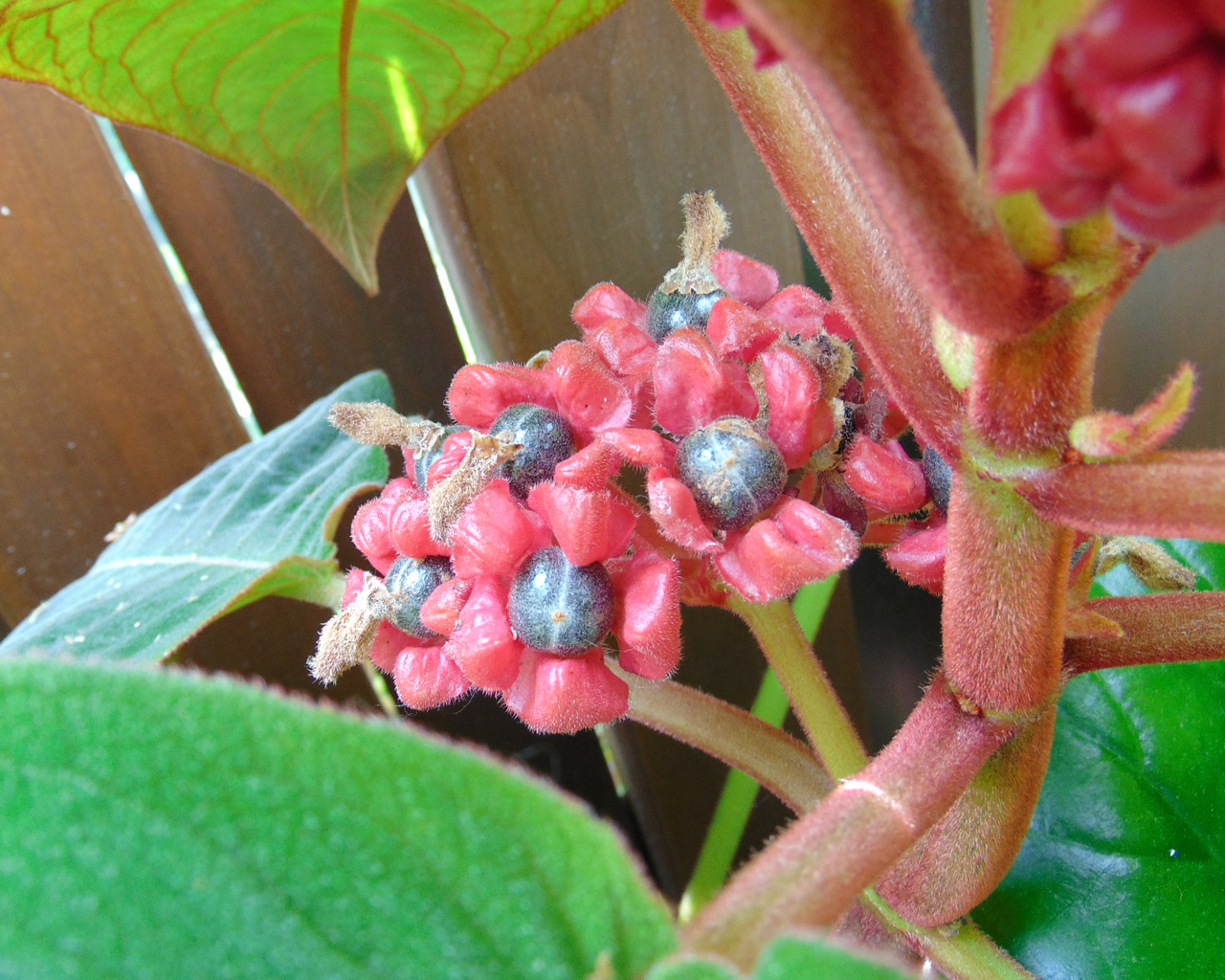 Jardin Botanique de Montréal, Corytoplectus capitatus, Gesneriaceae, fruit